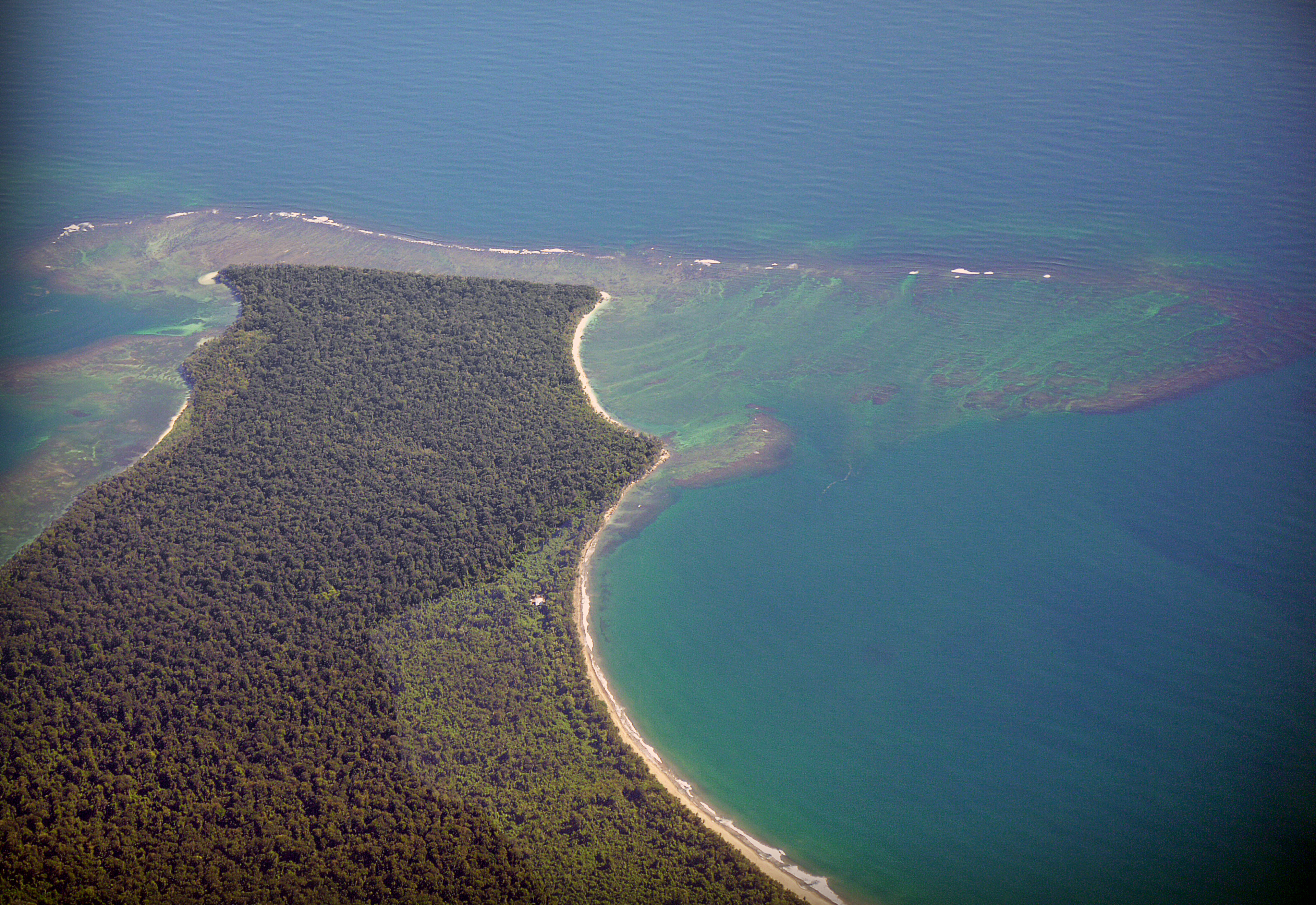 Cahuita point and coral reef at Costa Rica's caribbean coast.